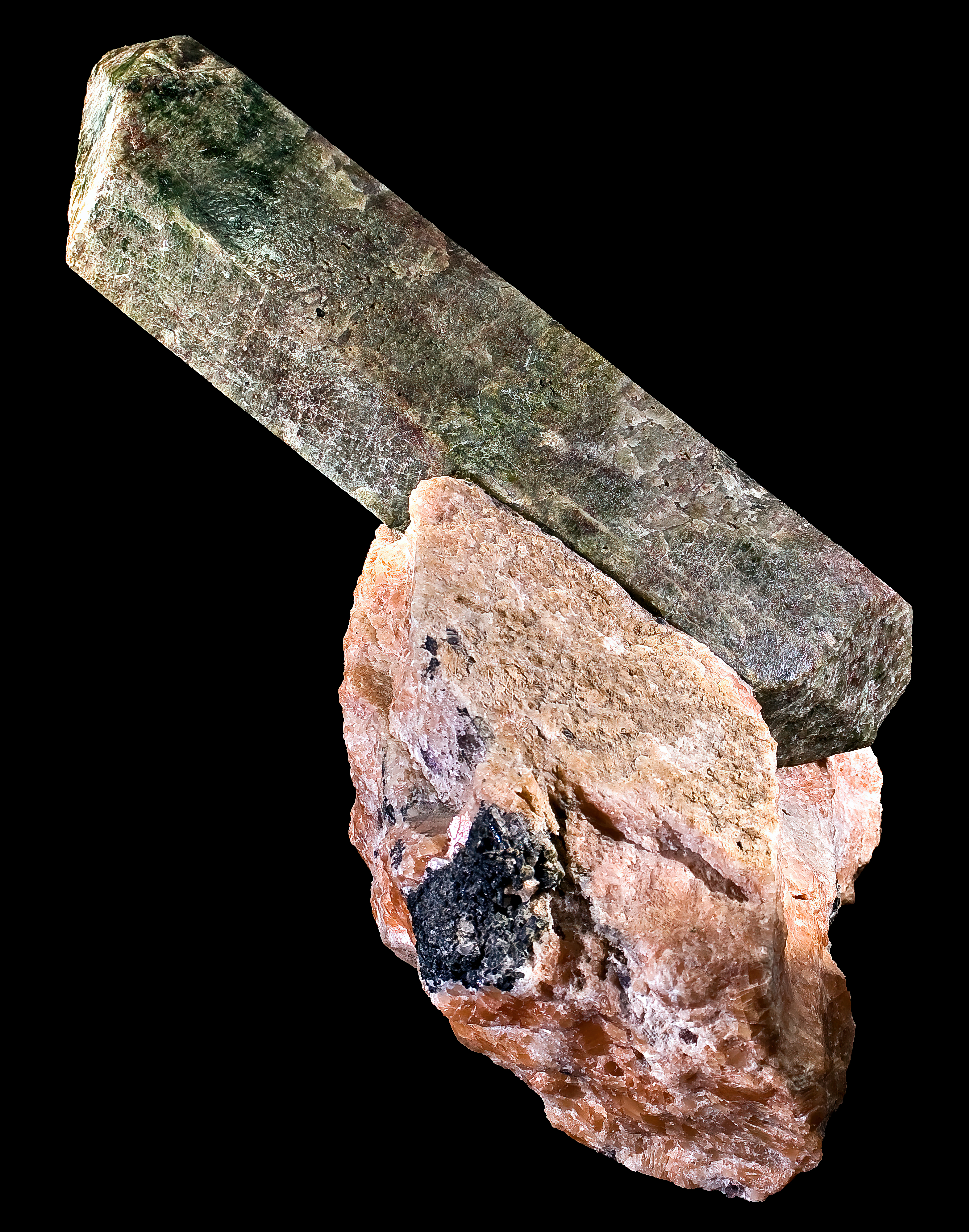 Apatite-(CaF) (Fluorapatite) Doubly-terminated crystal in calcite Locality : Yates mine, Otter Lake, Pontiac RCM, Outaouais, Québec, Canada Size of crystal 32cm